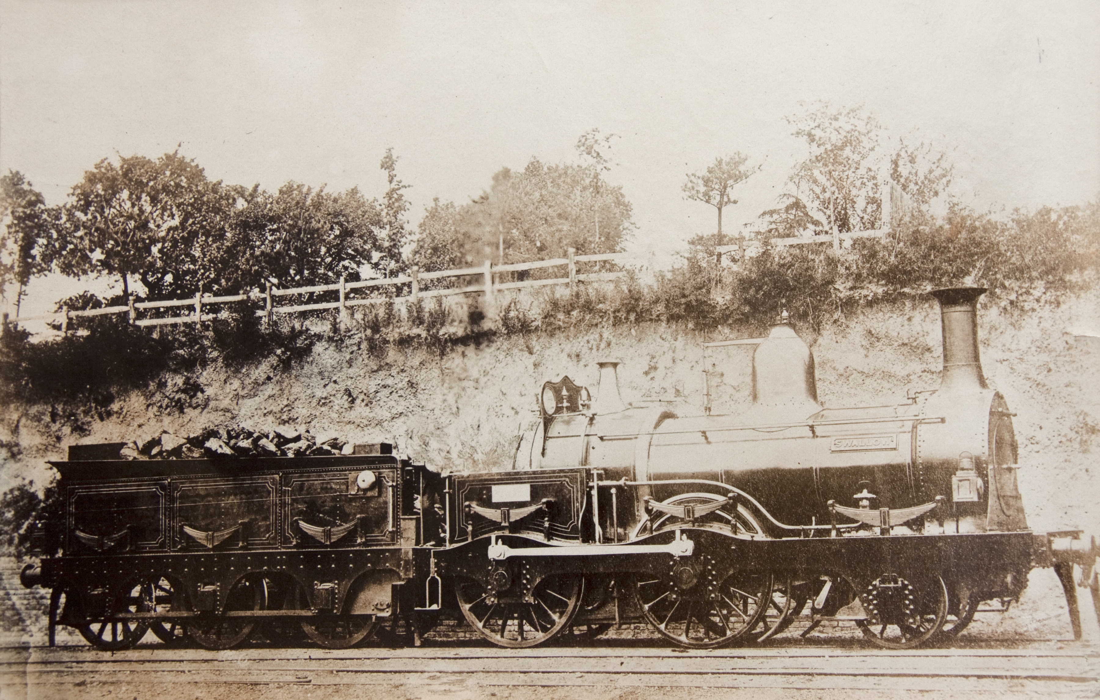 London Chatham and Dover Railway 'Tiger' class locomotive, it was built in 1861 to the design of William Martley and withdrawn in September 1904. This photo was taken from an old original photo we came across while helping to clear the house of a deceased friend. I have uploaded it to Flickr in the hope that it might be interesting to steam enthusiasts.